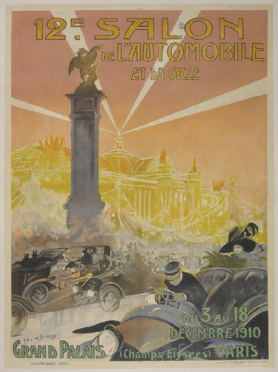 Poster advertising the 12e Salon de l'Automobile (1910). Signed by the artist.